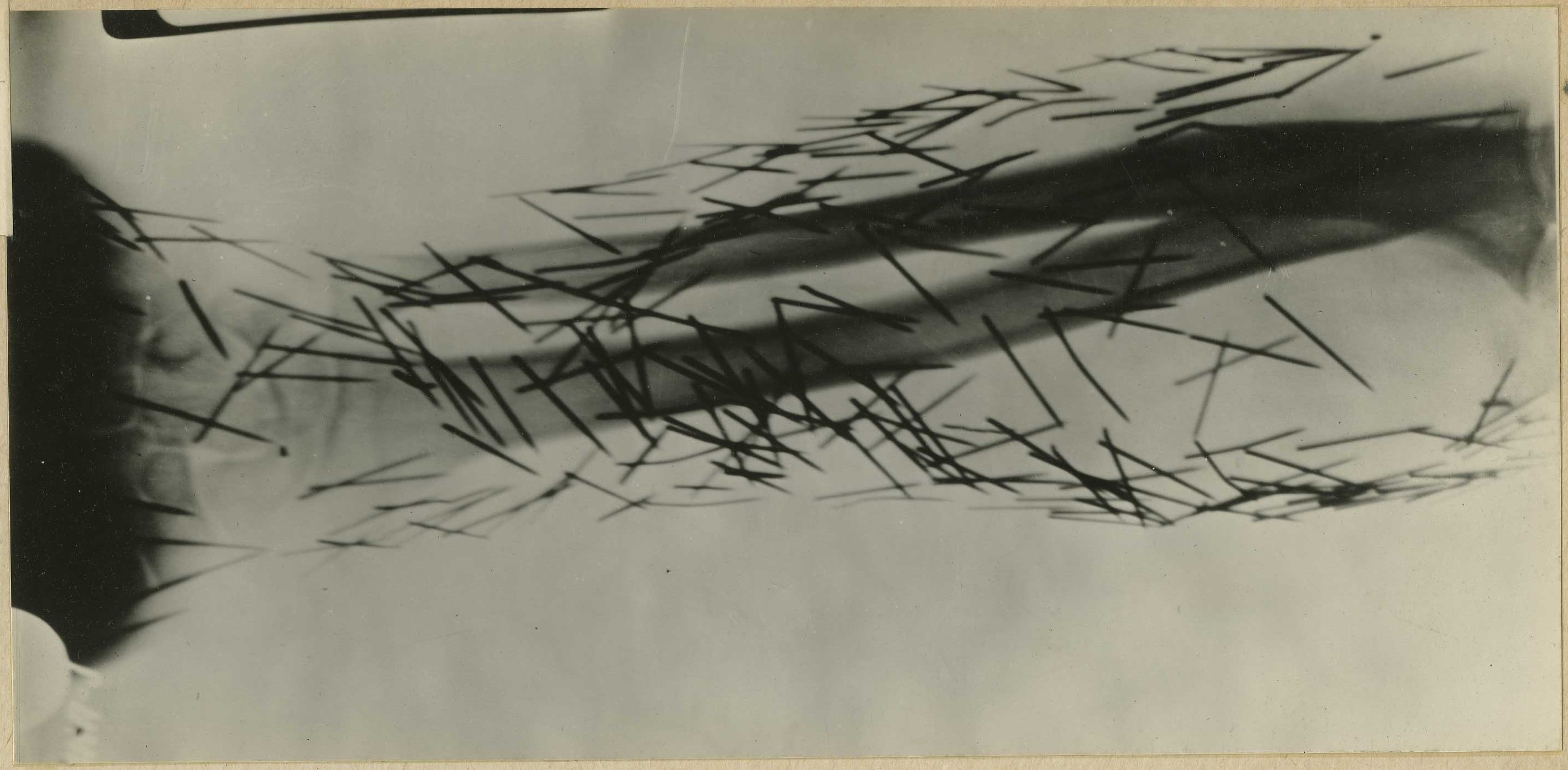 Mutilation - self castigation. Graphophone needles. [X-rays. Radiography.] Selected by D. Rose